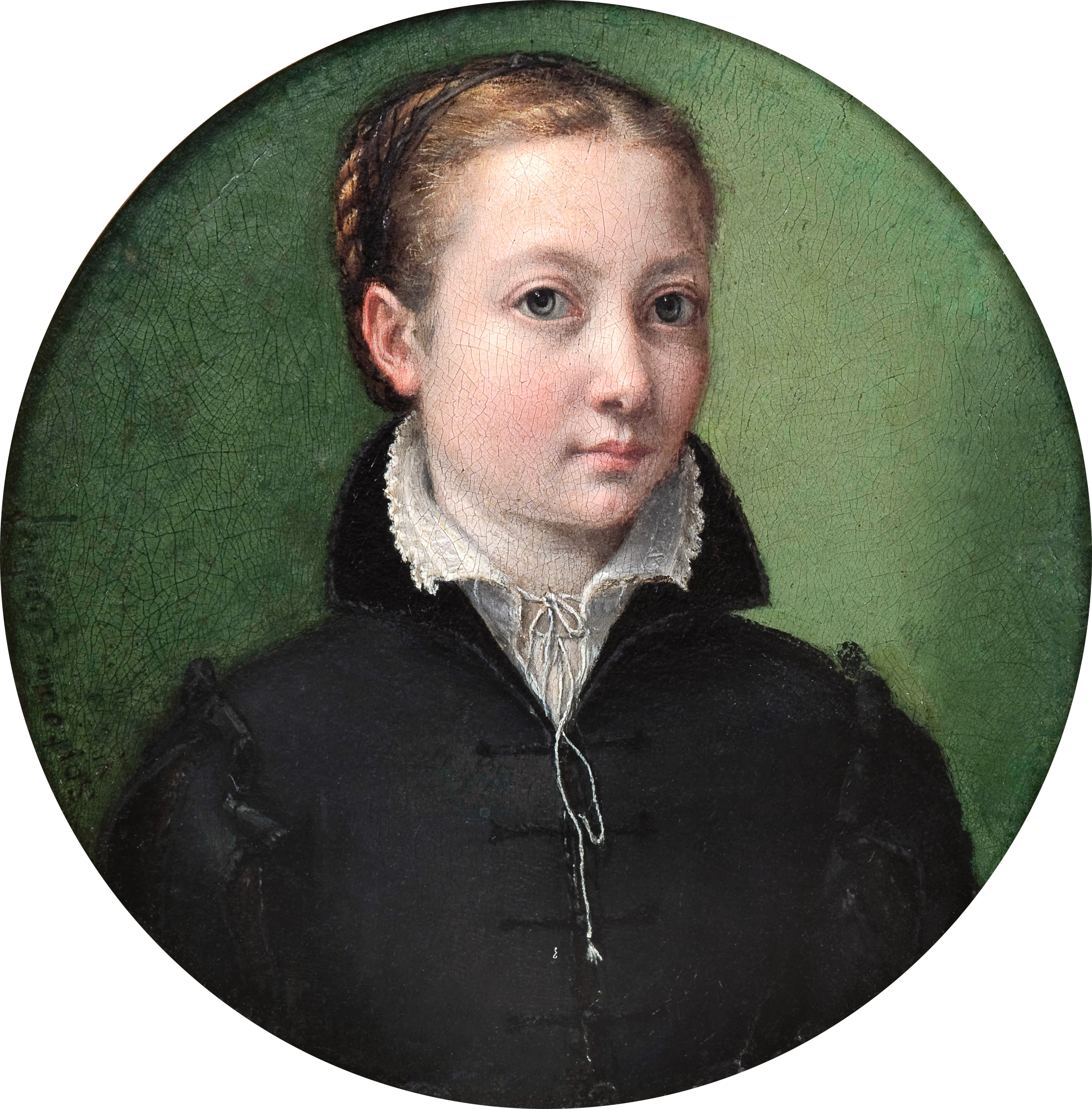 Self portrait oil on pane 13.2 cm signed c.l.